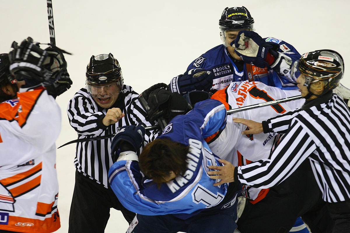 JANUARY 25, 2009 - Ice Hockey : The Asia League Ice Hockey match at Daido Drinko Areana on January 25, 2009 in Tokyo, Japan. (Photo by Tsutomu Takasu)